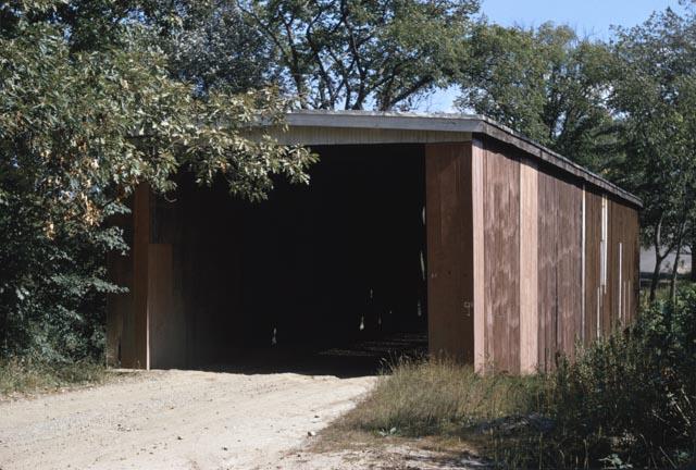 This photo of the lost bridge #53 was taken in 1966.